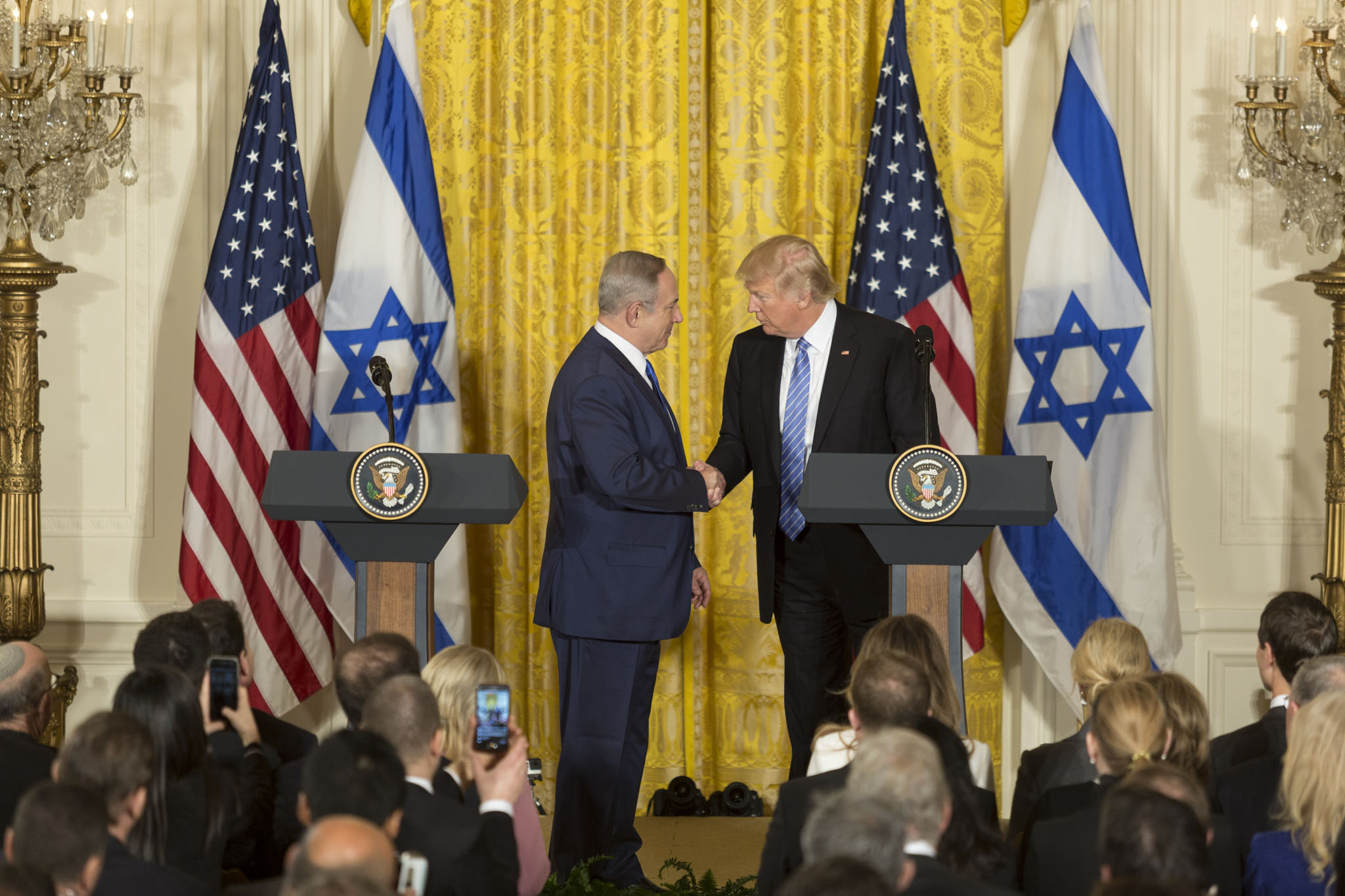 President Donald Trump and Israeli Prime Minister Benjamin Netanyahu shake hands during their joint press conference, Wednesday, Feb. 15, 2017, in the East Room of the White House in Washington, D.C. (Official White House Photo by Leslie N. Emory)